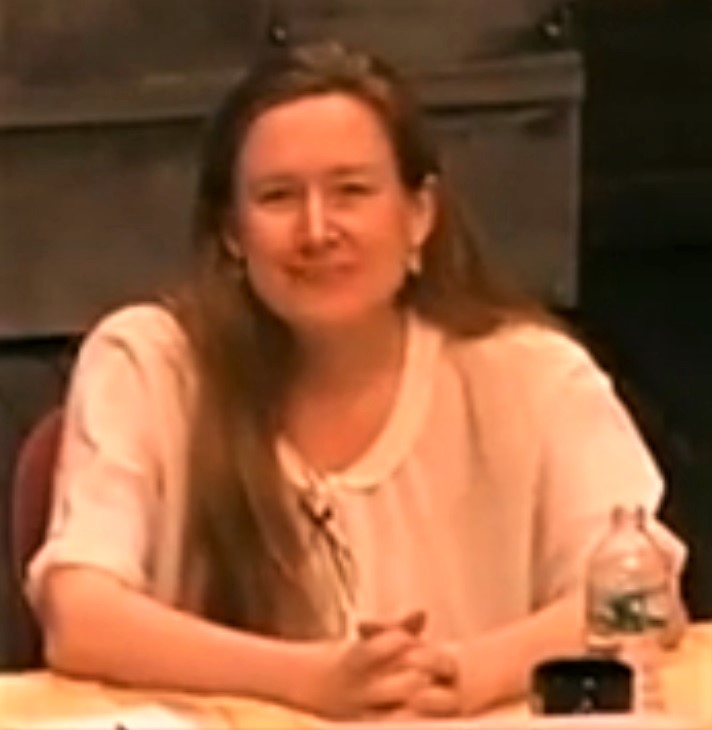 On Kisses and Chemistry: A Discourse on Stage Kiss—Sarah Ruhl—March 17, 2014 Playwrights Horizons presents panel discussion On Kisses and Chemistry: A Discourse on Stage Kiss featuring Stage Kiss playwright Sarah Ruhl, actor Hamish Linklater, psychologist/expert on couples & sexuality Esther Perel, and actress Kathleen Chalfant, moderated by psychiatrist Tony Charuvastra. The event will be livestreaming on the global, commons-based peer produced HowlRound TV network at howlround.tv on Monday, March 17 at 3:30pm PST/ 5:30pm CST/ 6:30pm EST/ 22:30 GMT. To submit questions for ending Q&A and participate in online conversation, follow @PHnyc and use hashtag #stagekisspanel. Help us caption & translate this video!